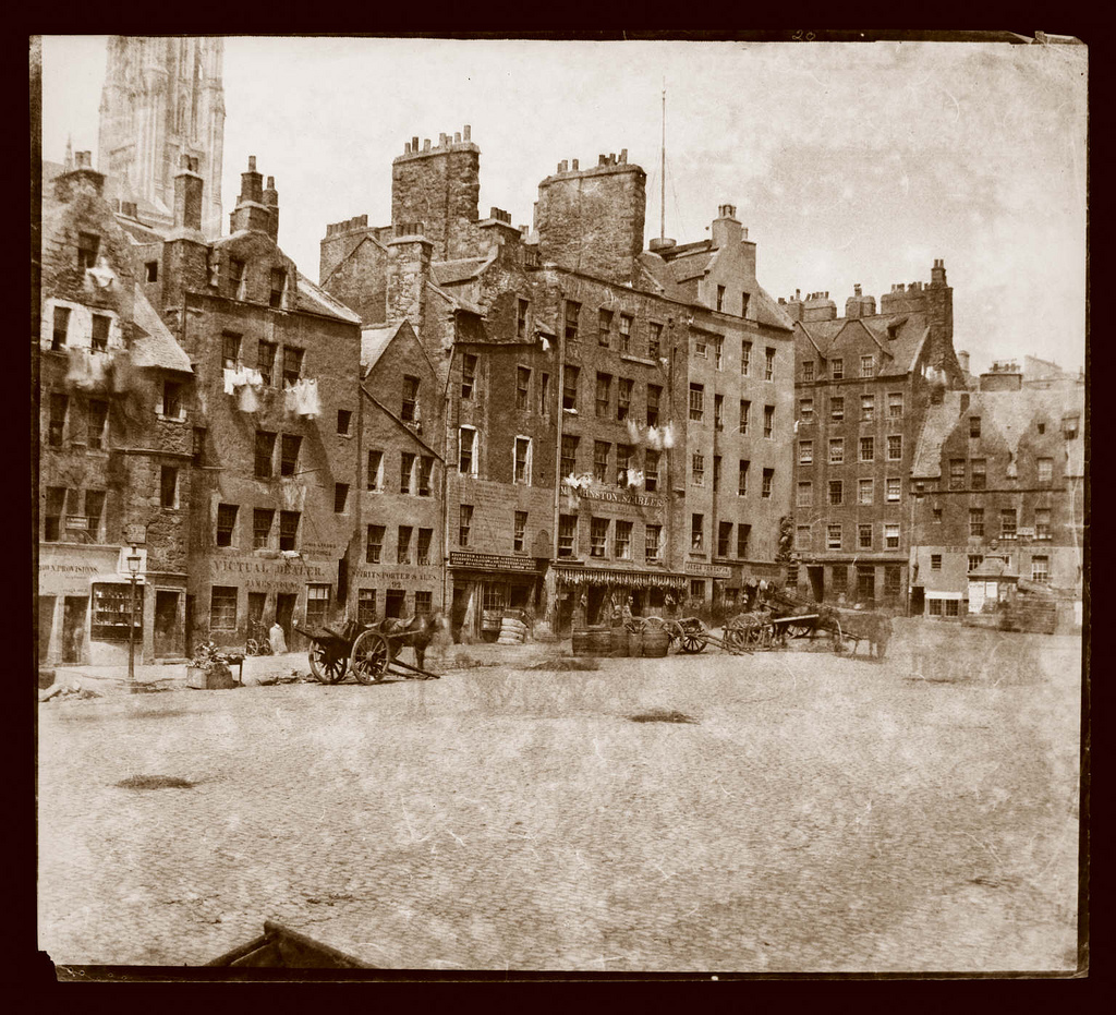 East end of Grassmarket showing foot of West Bow, Edinburgh